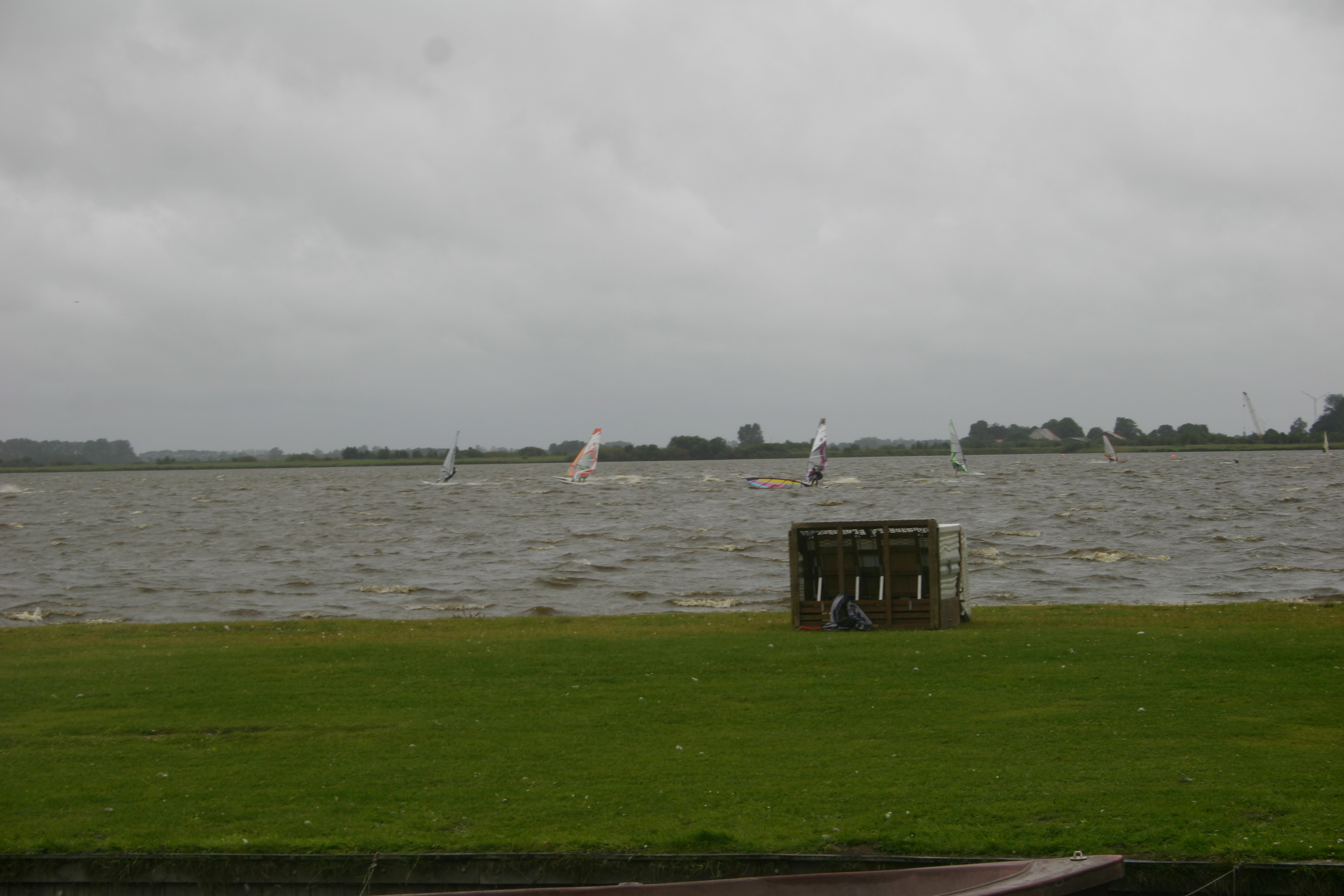 Surfers on the "Großes Meer" (lit. Big Lake) in the community of Südbrookmerland, district of Aurich, East Frisia, Germany